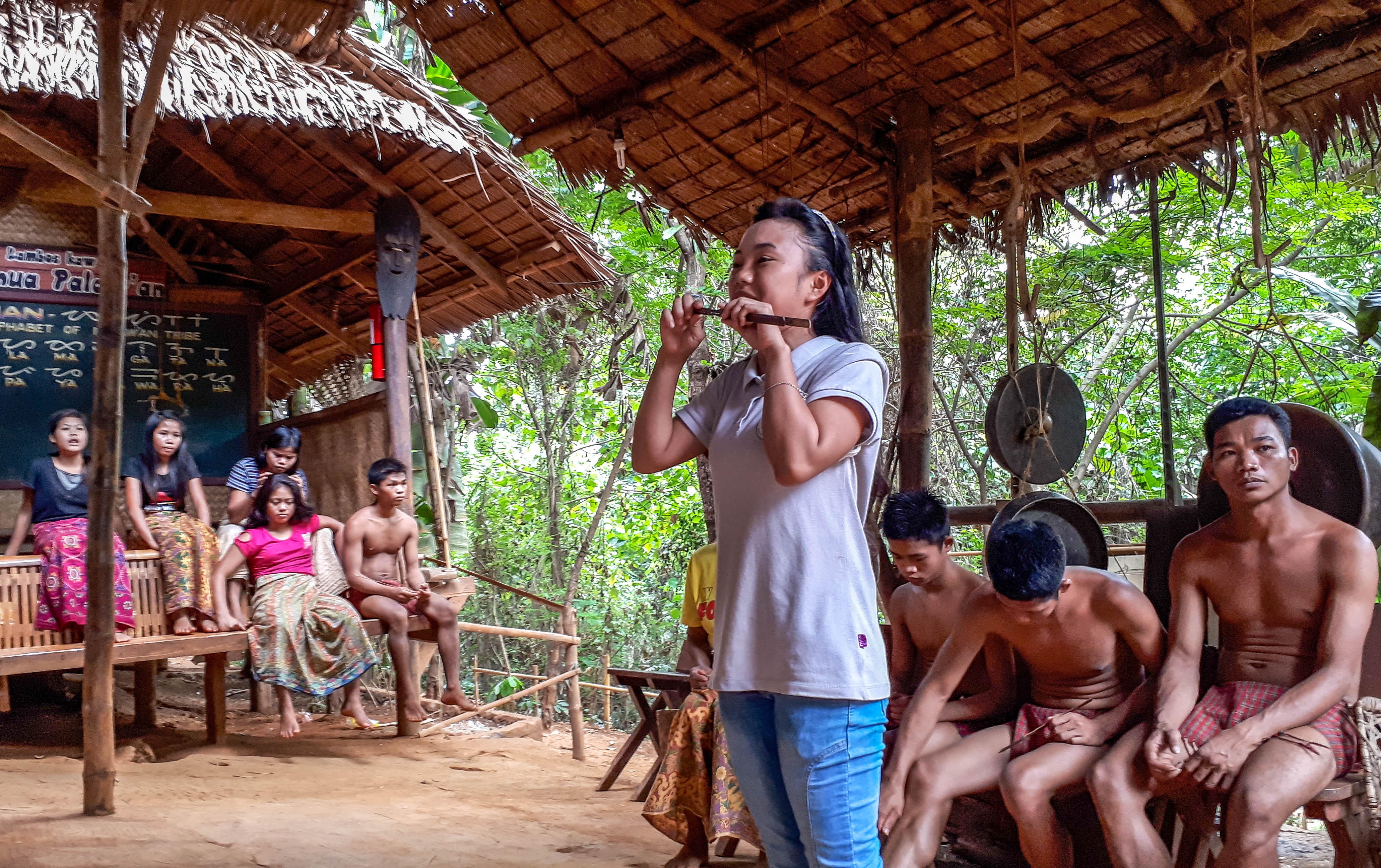 Tour guide demonstrating the tribe's musical instrument